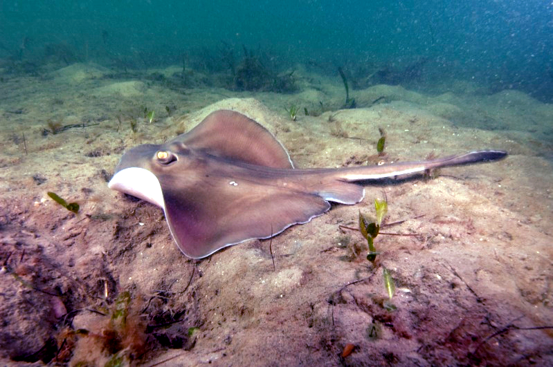 A Sparsely-spotted Stingaree, Urolophus paucimaculatus, at Corner Inlet, Wilsons Promontory